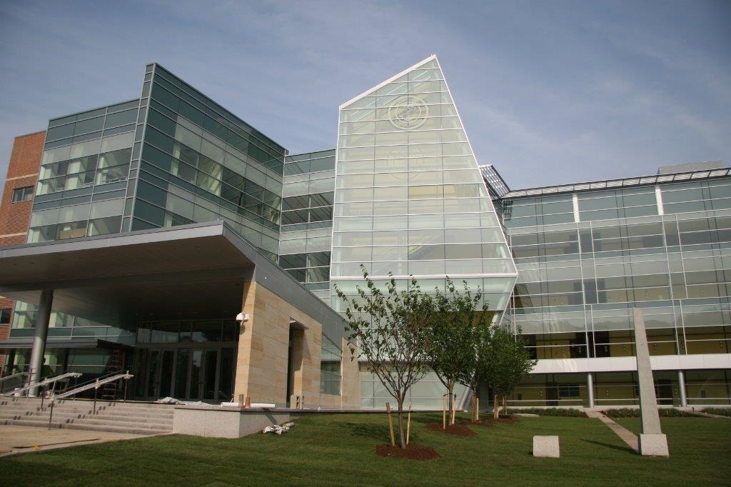 Noel Judicial Complex (Kent County Courthouse)